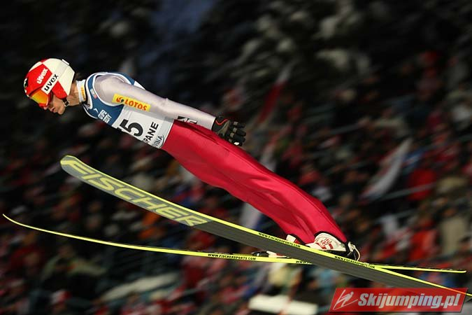 Kamil Stoch during individual competition of FIS Ski Jumping World Cup in Zakopane, 2013